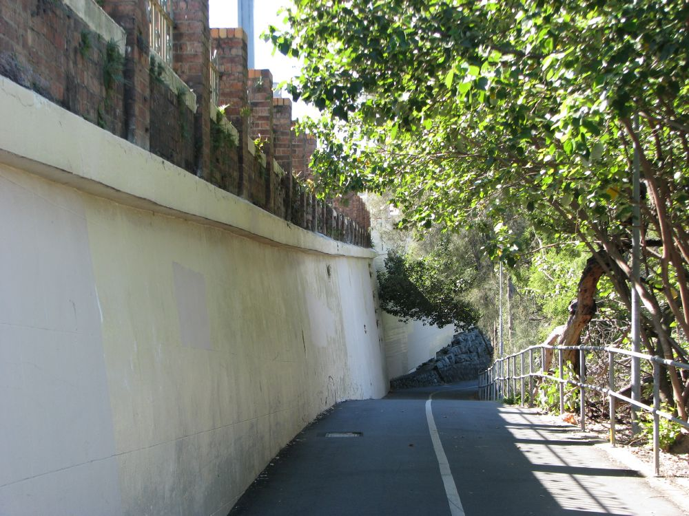 Coronation Drive (North Quay) Retaining Wall (2008)